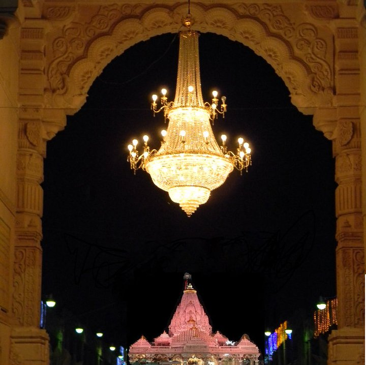 Ambaji Temple at Night from Highway.